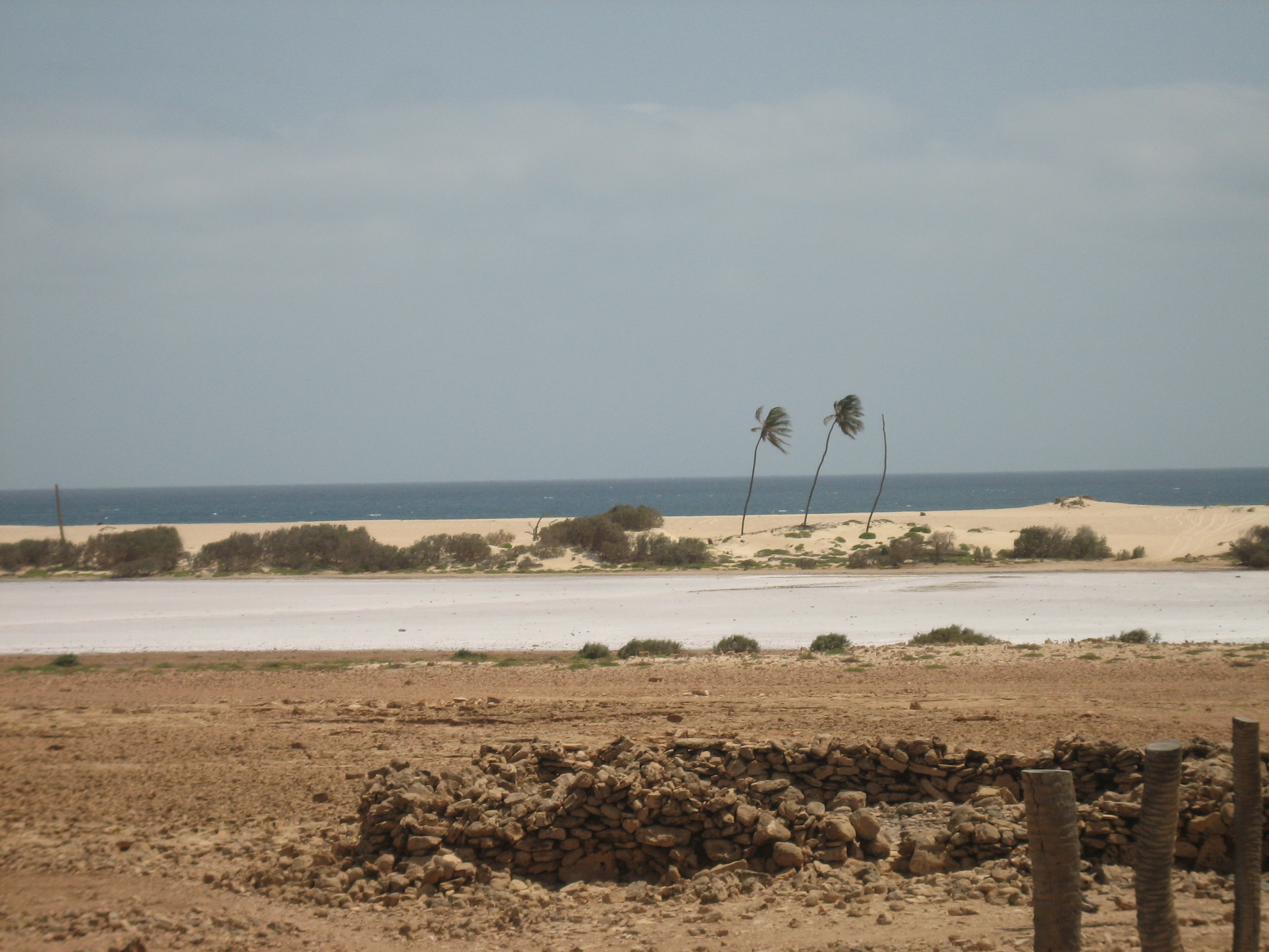 Beach and a salt pan directly to the south of the abandoned village of Curral Velho on the island of Boa Vista, Cape Verde